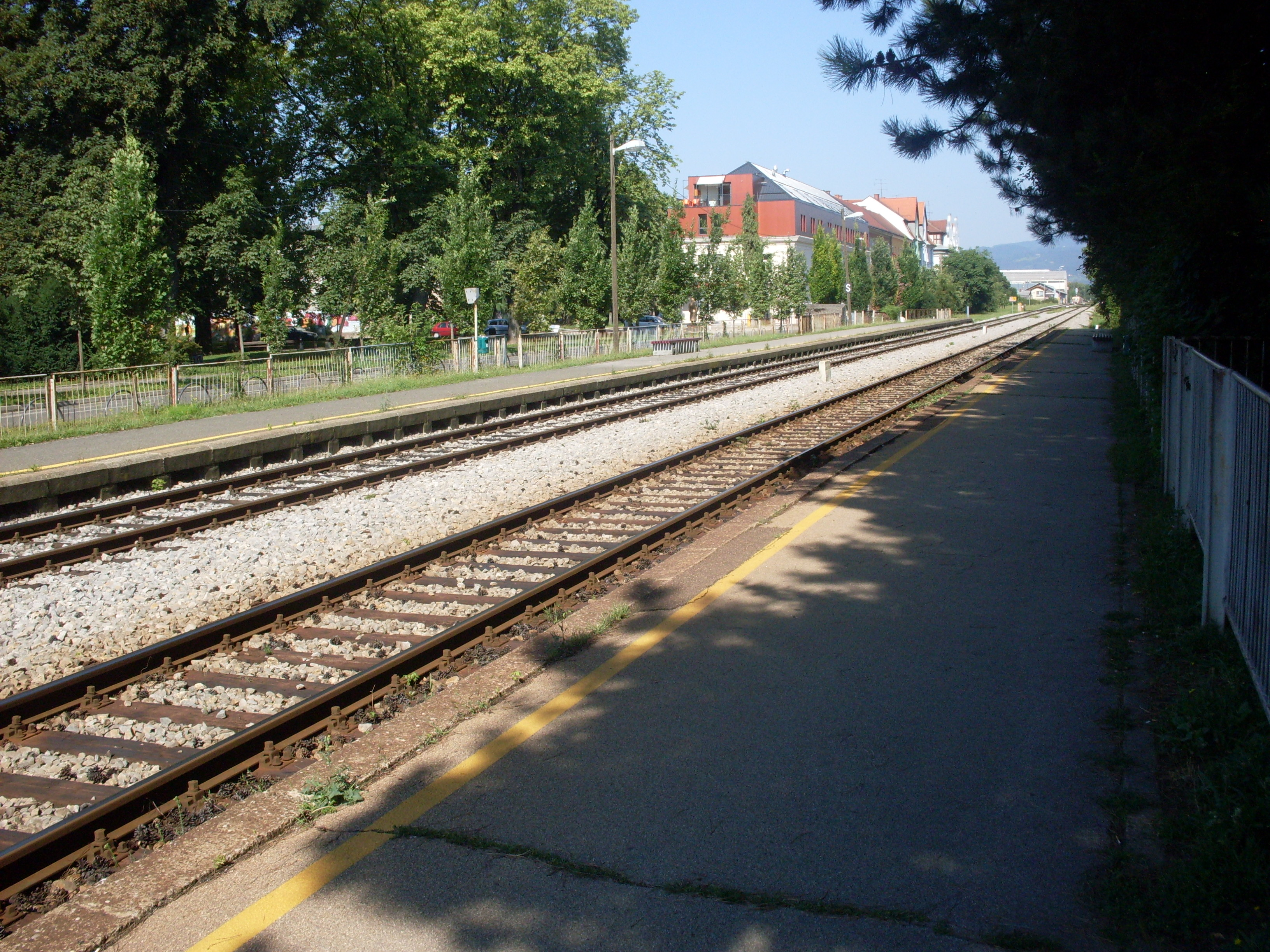 Railway halt Maribor Tabor in central Maribor, southern bank of the Drava